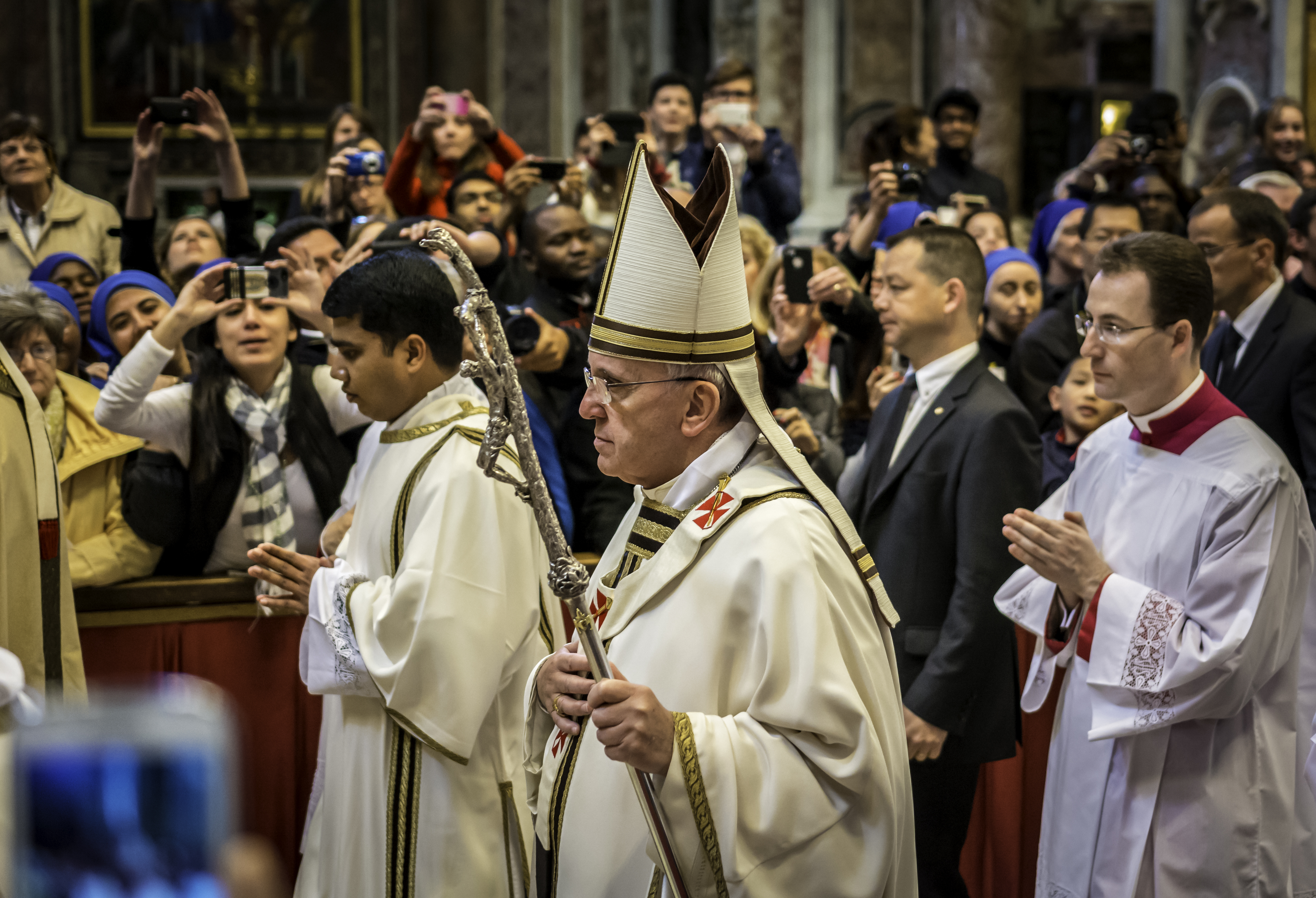 Pope Francis leaving after La Messa del Crisma